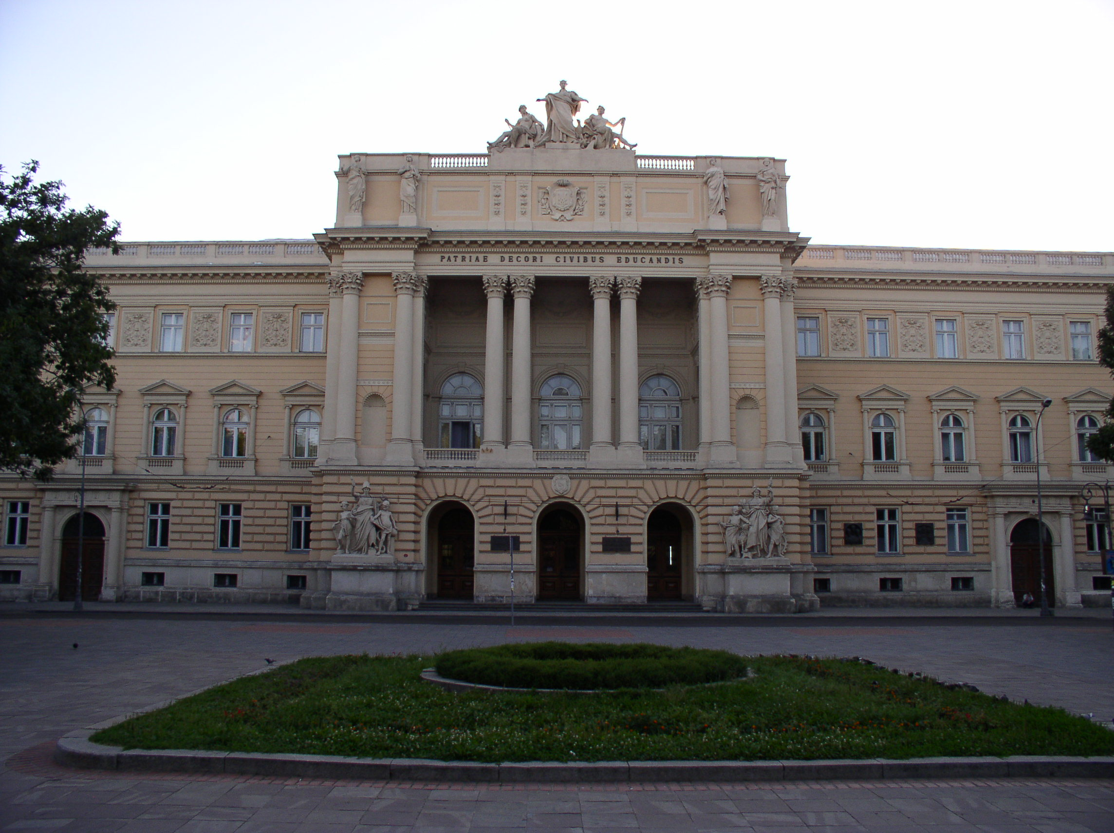 University. Lviv, Ukraine